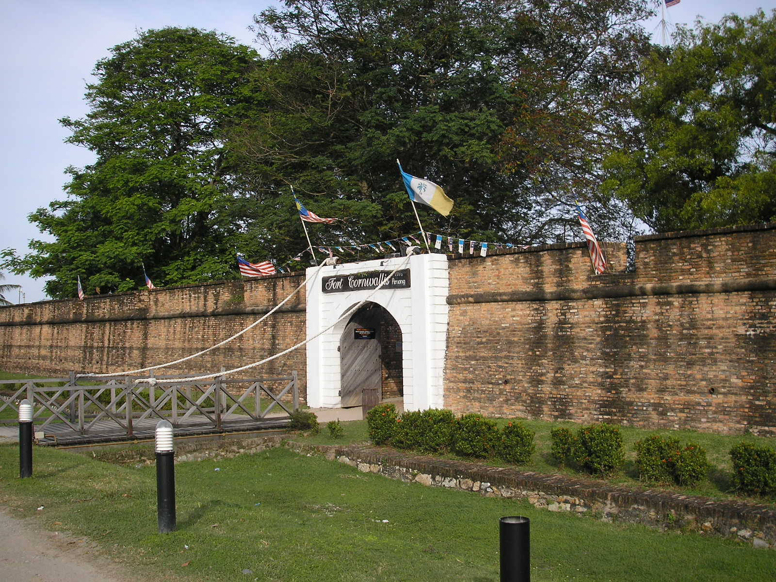 Image of the Fort Cornwallis in George Town, Penang.